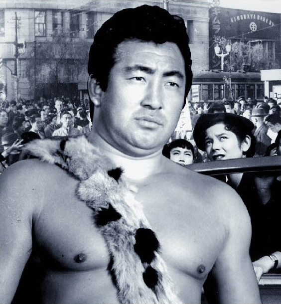 Rikidōzan (1924–63) in motion picture Rikidōzan no Tetsuwan Kyojin (1954)